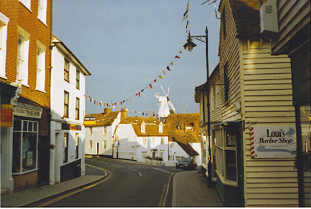 Cranbrook High Street. Kentish village street with weather-boarded houses and old windmill.